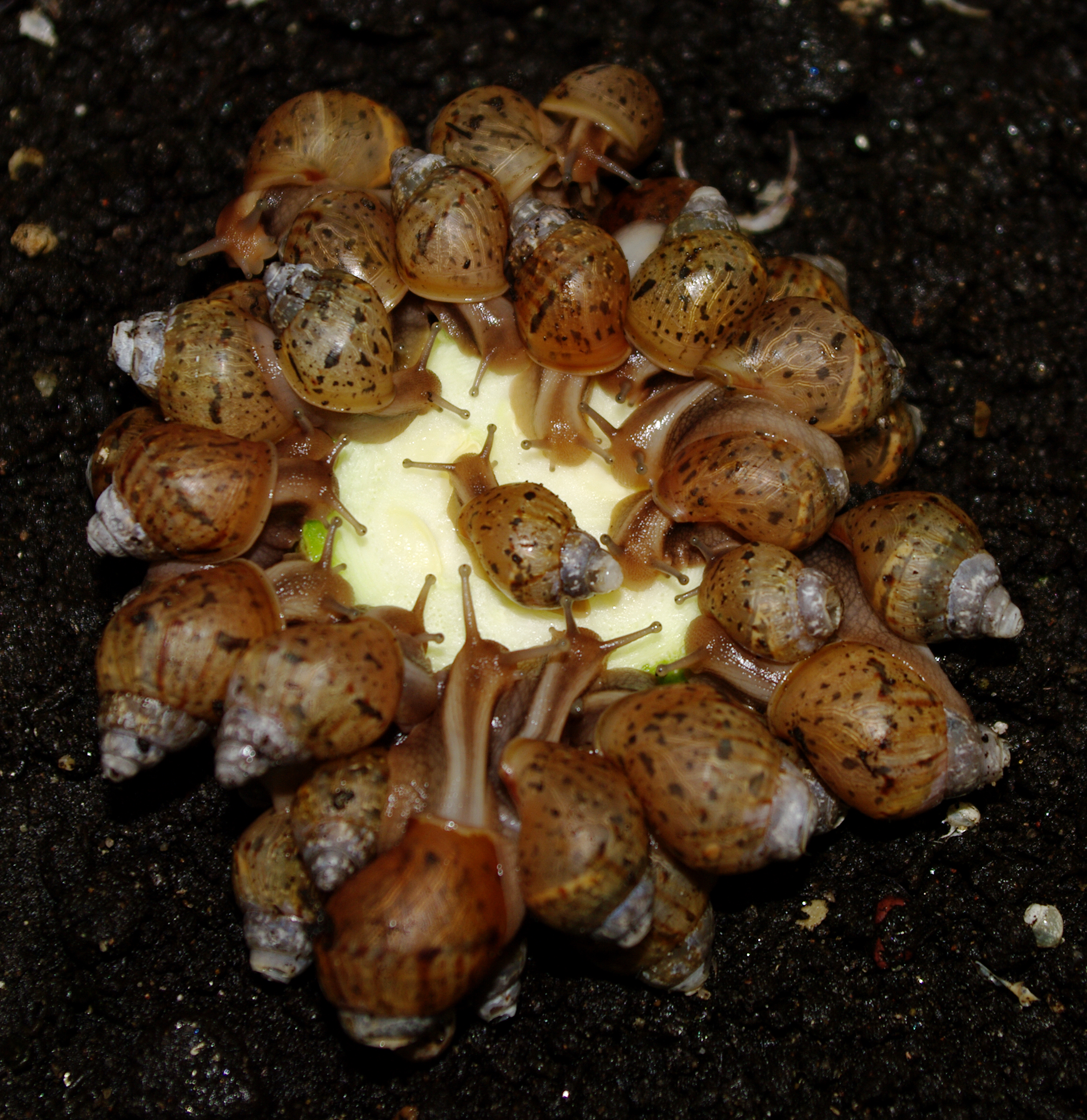 Young achatinas are eating.